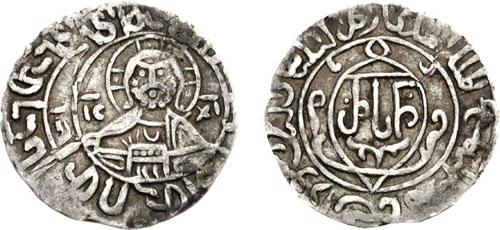 Kingdom. Queen Rusudan. 1223-1245. AR Dram (2.36 g, 12h). Dated CY 450 (1230 AD). Georgian – "In the name of God, struck in the K'oronikon year 450" IC XC, nimbate facing bust of Christ, holding Gospels / Arabic – "Queen of Queens, Glory of the World and the Faith, Rusudan daughter of Tamar, champion of the Messiah", "RSN" in Georgian in central cartouche with additional garnish. Kapanadze 77; Lang 14. VF, toned. Rare this nice.